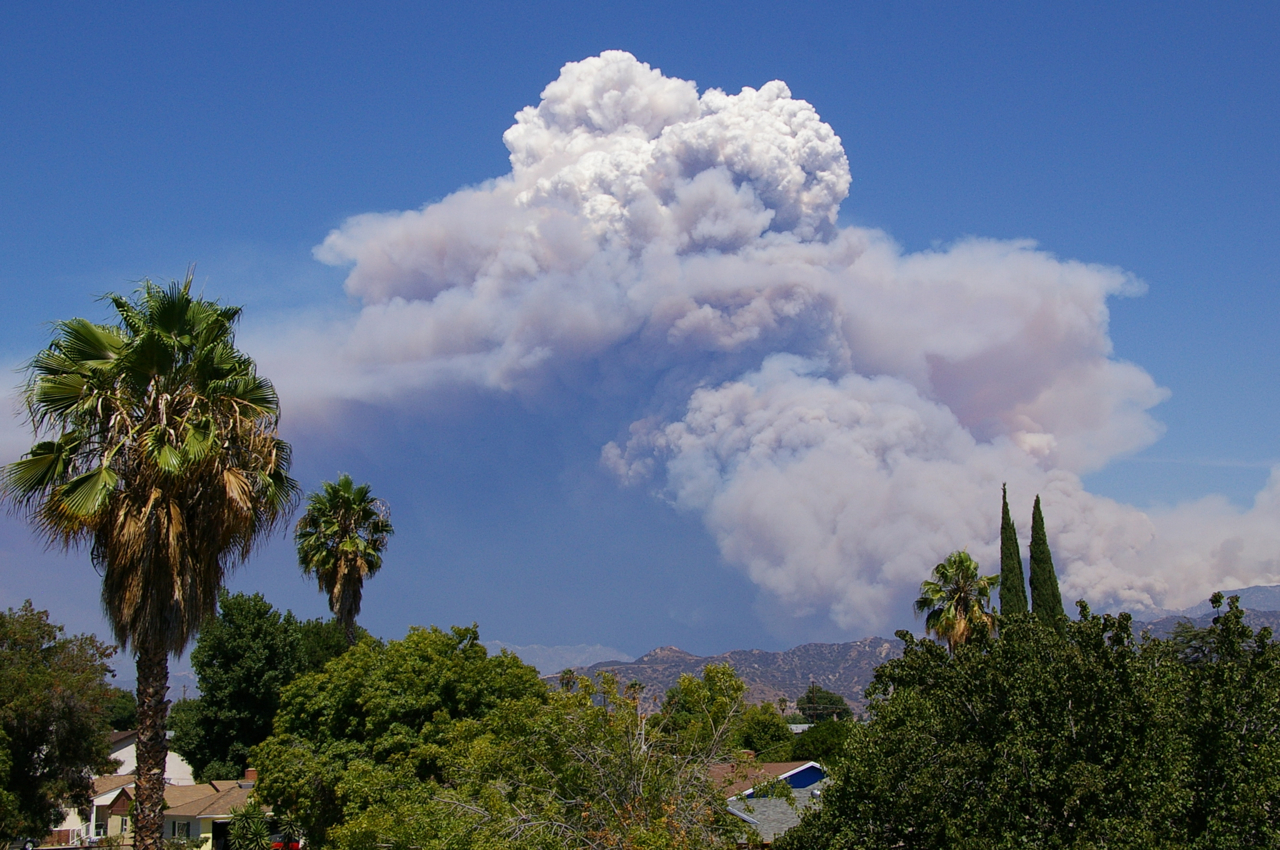 Pyrocumulus cloud from the "Station Fire" in the La Cañada/Flintridge region of Los Angeles at 1:35pm on August 28, 2009. Meteorological sources reported this cloud reaching altitudes of 15,000 feet. Photographed from North Hollywood, California, looking NNE.